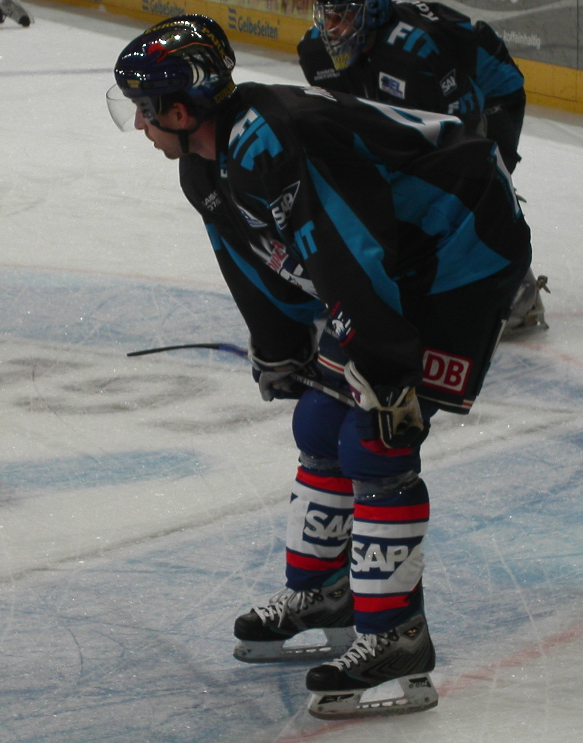 Francois Methot playing for Adler Mannheim